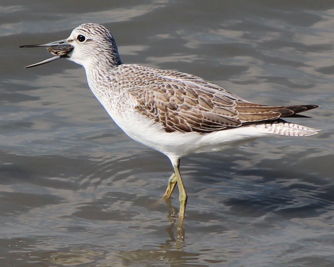 Tringa nebularia (Common Greenshank) eating crab in Japan.